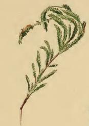 Stainton’s Natural History of the Tineina (1855–1873): Xenolechia aethiops A sprig of "heath" eaten by larva